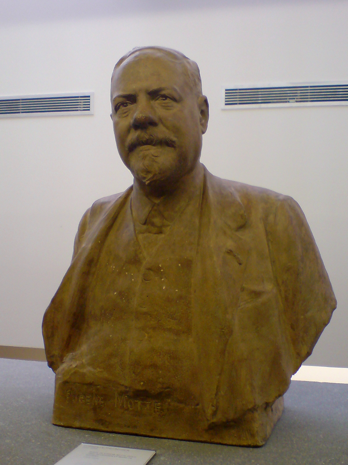 Cast bust of Eugène Motte, industrialist and major of Roubaix from 1902 to 1912. By Corneille Theunissen (1863-1918). Displayed in the Museum für Art and Industry in Roubaix, France